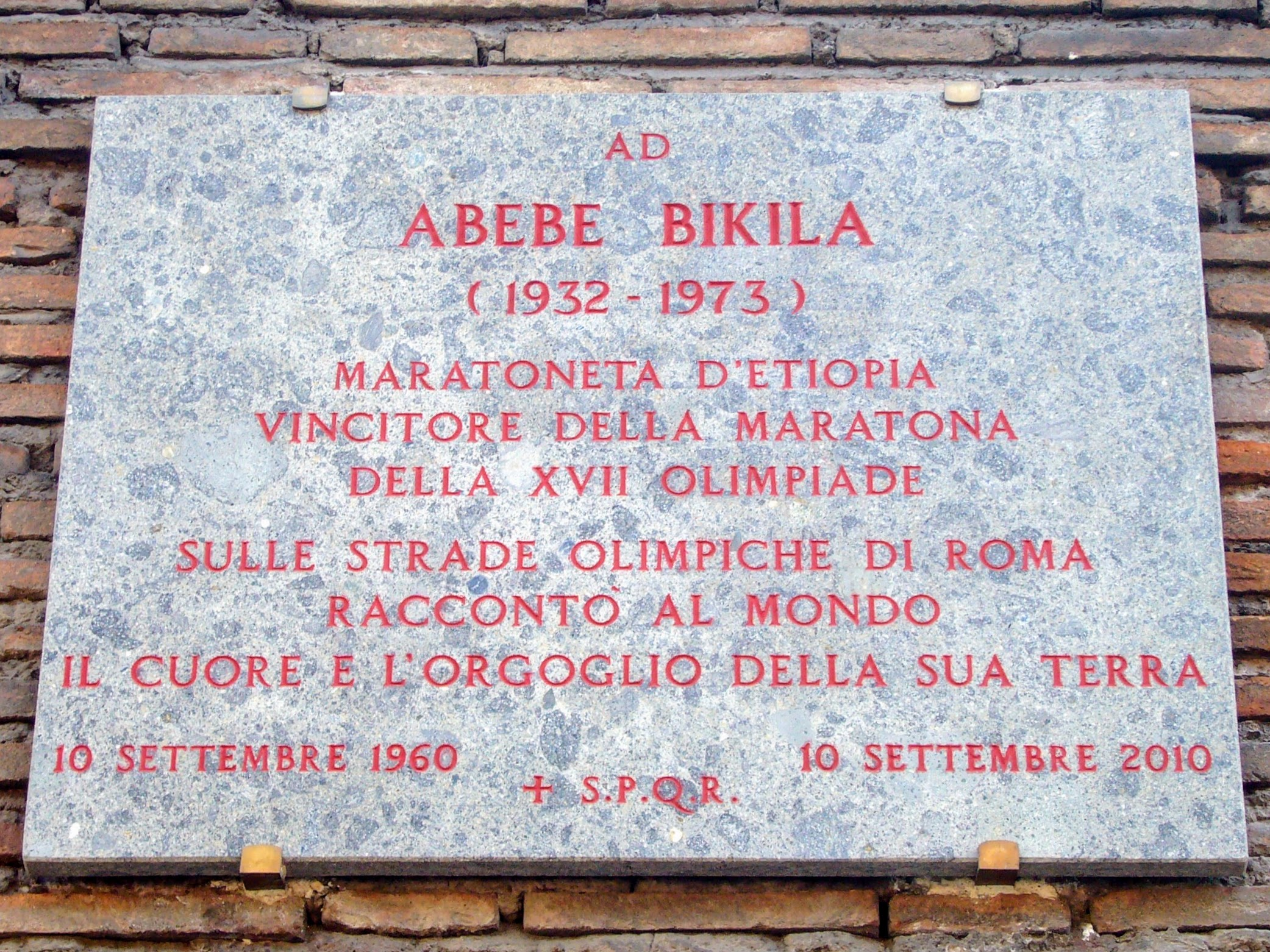 Rome, Via di San Gregorio, plaque in memory of the 50th anniversary of Abebe Bikila's win in the 1960 Summer Olympics marathon. The Plaque reads: To ABEBE BIKILA (1932-1973) Ethiopian marathon runner Winner of the marathon at the XVII Olympiad On the olympic streets of Rome he showed to the world the heart and pride of his land 10 September 1960 - 10 September 2010